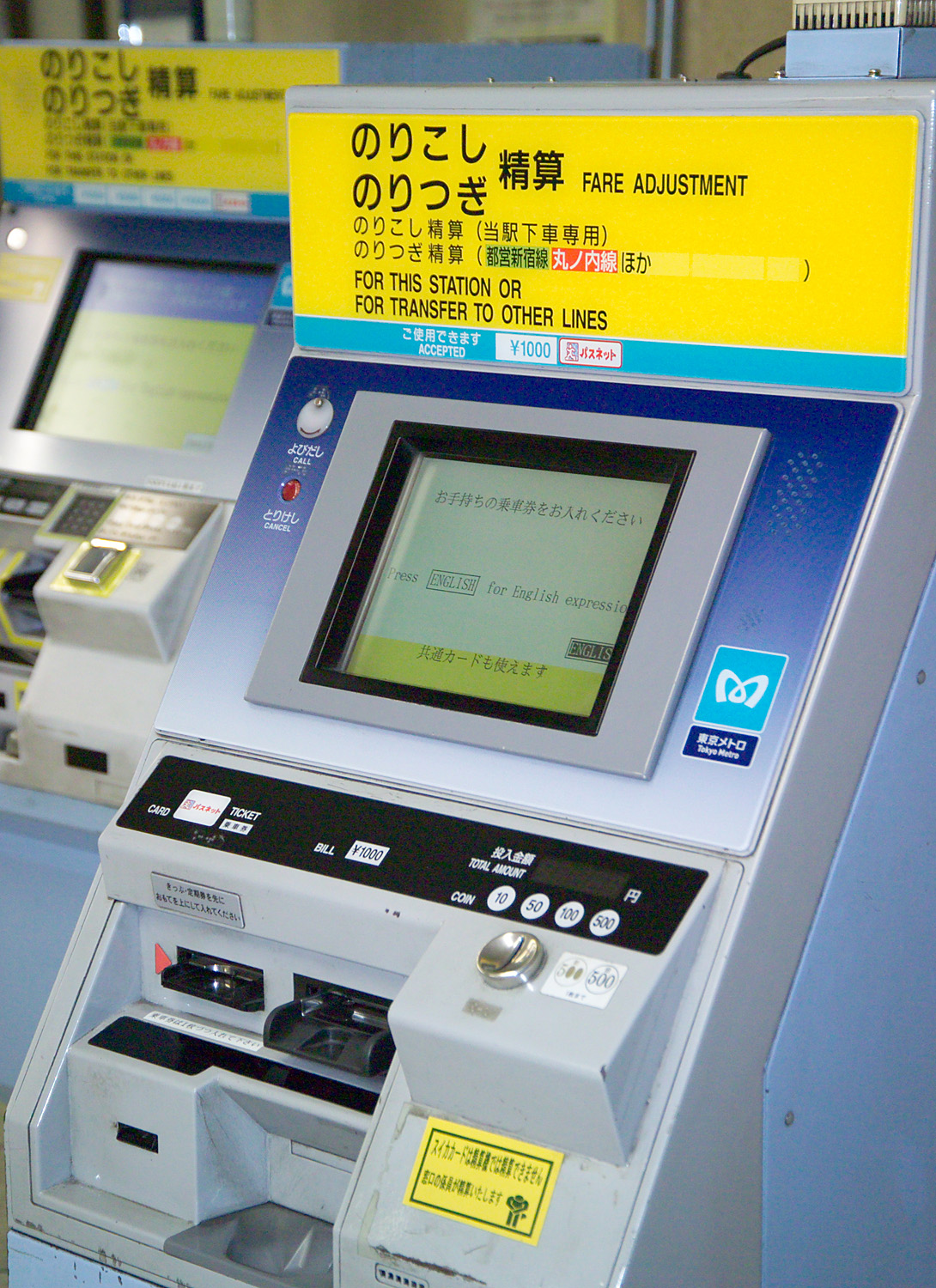 These machines, inside stations on the Tokyo Metro Lines, accept tickets and cash so that riders who have gone beyond the limits for their tickets can pay the balance before going through the machines where they surrender their tickets. I took the photo and contribute my rights in the file to the public domain; individuals and organizations retain rights to images in the file.